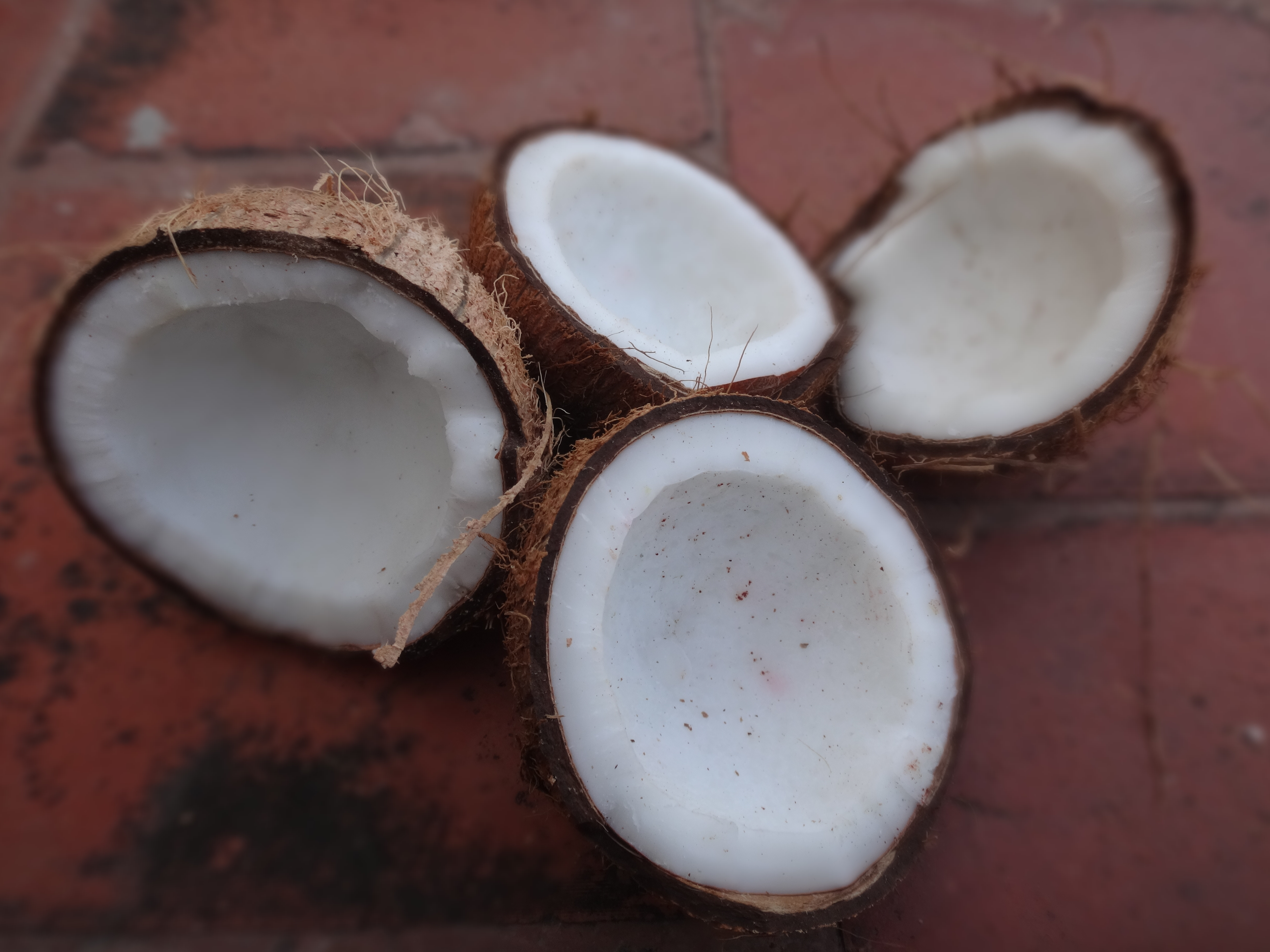 Coconut is one among the nuts and they are available in plenty in some countries including India. The inner ingredients are rich in protein and it is used in food items and preparation of cooking oil. It is used by people in southern parts of India.